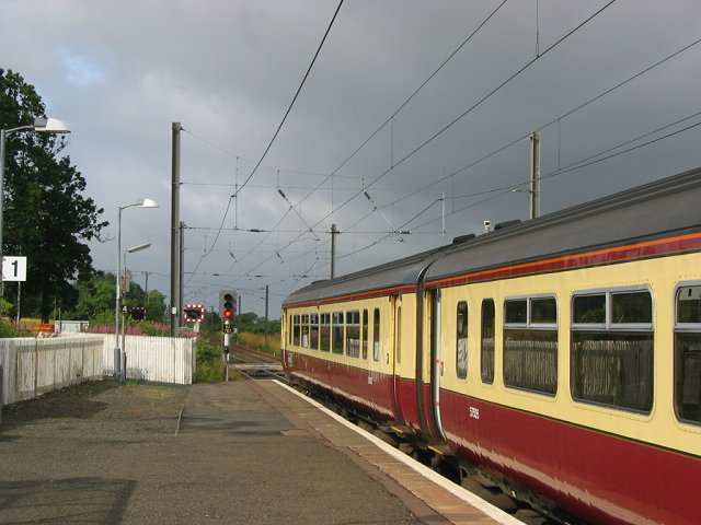 Kirknewton Station, Scotland. Train leaving for Glasgow Central on the local service between Glasgow and Edinburgh. The station was once known as Midcalder, but it's just on the edge of Kirknewton.